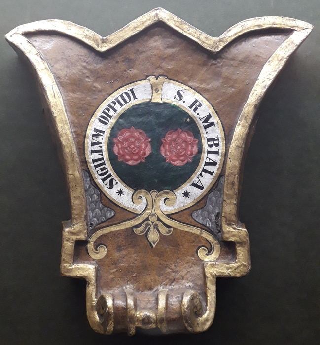 Cartouche featuring city of Biała coat of arms, 18th/19th centuries